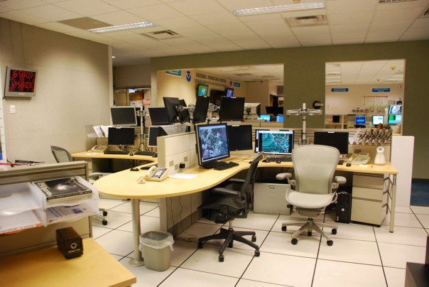 One of the four Hurricane Specialists desks used at the National Hurricane Center